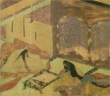 Part of the Murasaki Shikibu Diary Emaki, Hachisuka edition. The painting shows Murasaki Shikibu (right) lecturing to Empress Shōshi on Bai Juyi's poems.